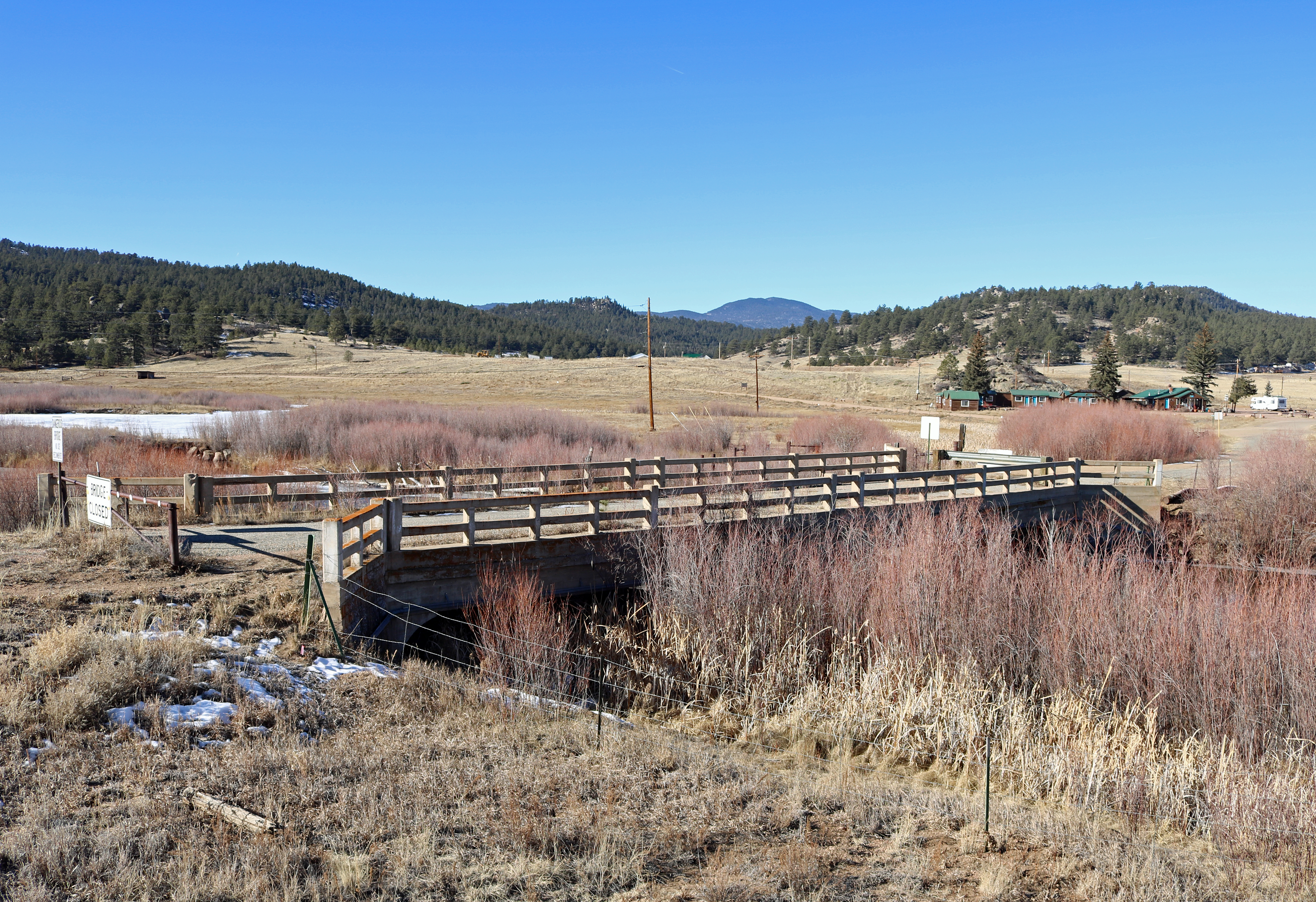 The South Platte River Bridge, located in Lake George, Colorado. The bridge is listed on the National Register of Historic Places. 5PA.1250